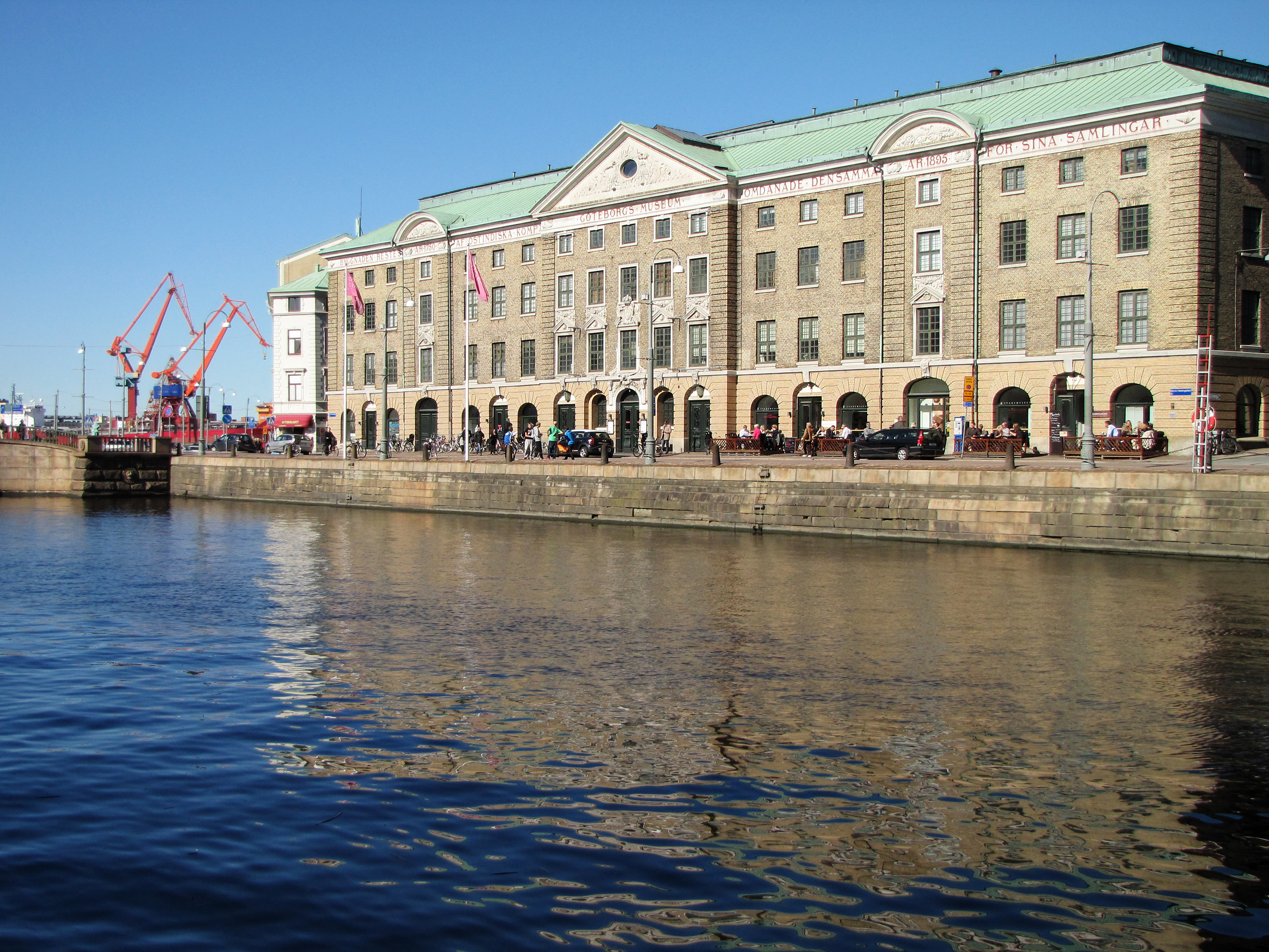 Building of Ostindiska kompaniet, the old Swedish East India Company in Göteborg, today accomodating the Göteborg Museum.